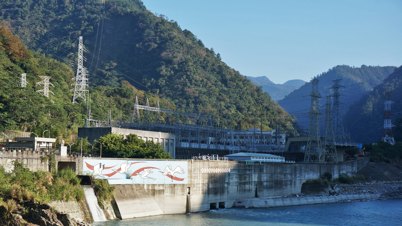 Tachia River Power Plant, Taichung, Taiwan 中文（台灣）: 大甲溪發電廠天輪分廠